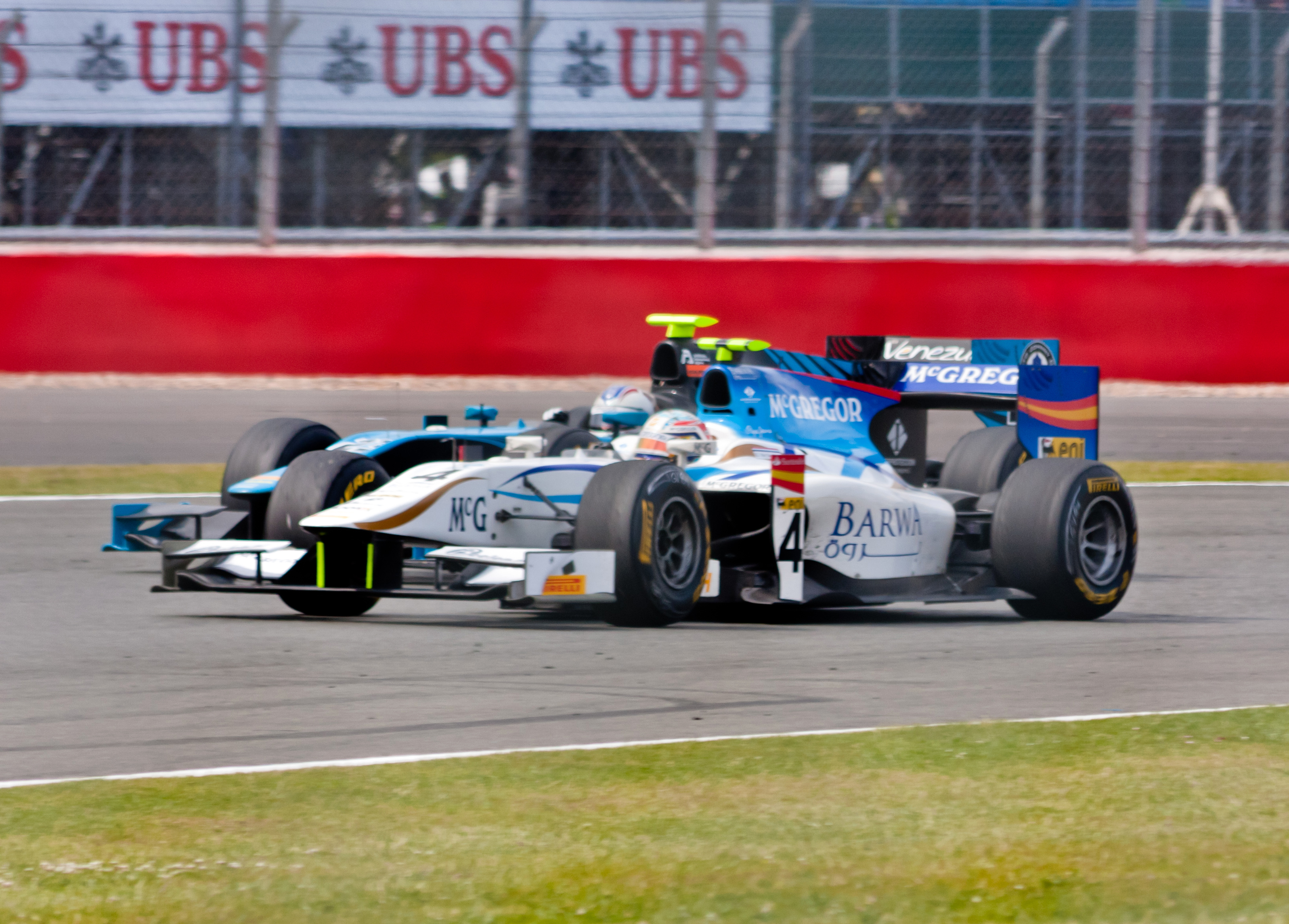 Giedo van der Garde for Barwa Addax Team passing Kevin Mirocha for Ocean Racing Technlogy in the 2011 GP2 Series Silverstone Circuit round. Original description from flickr: 20110709-IMG_6770